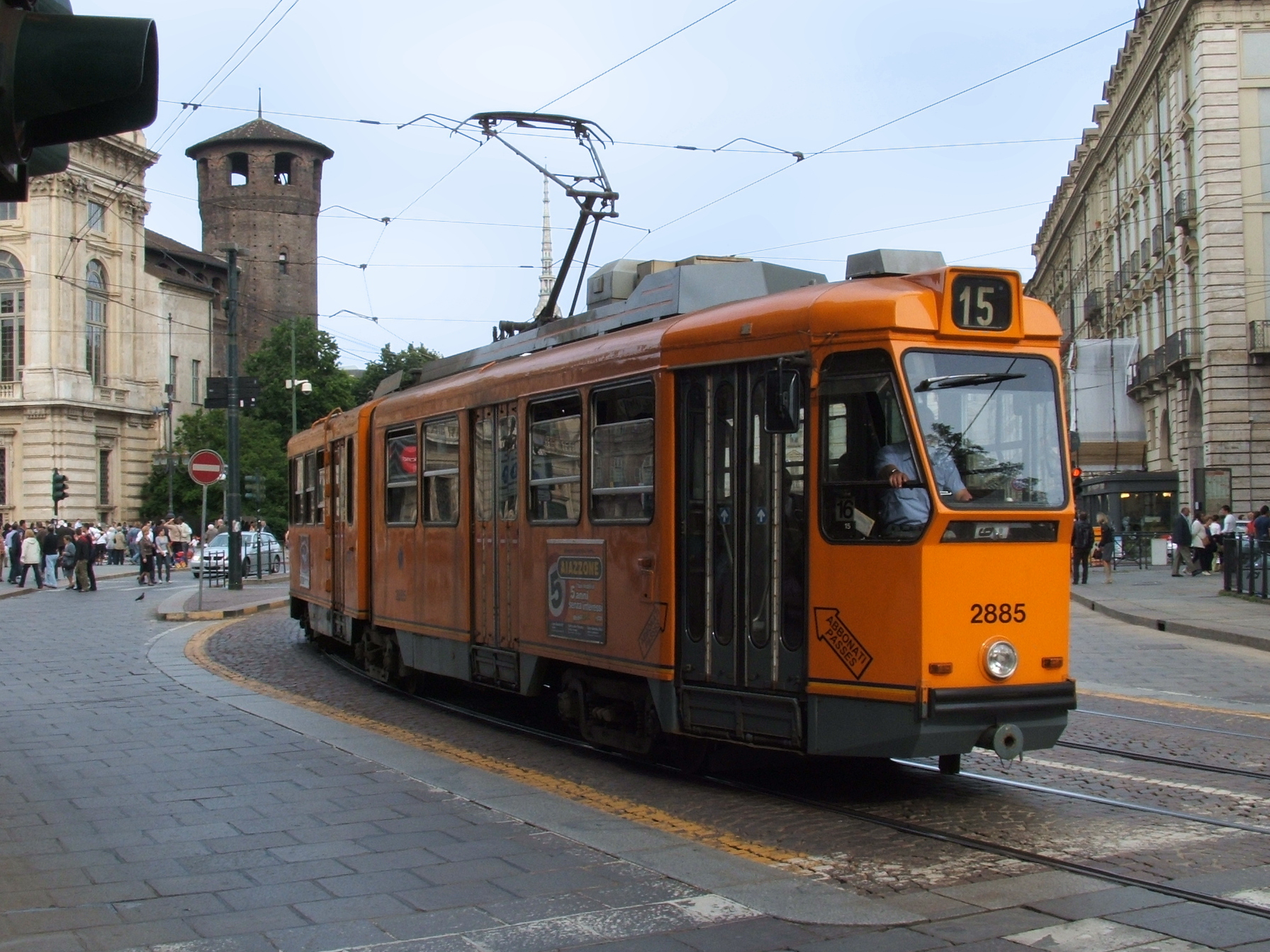 Tram in Turin, Italy